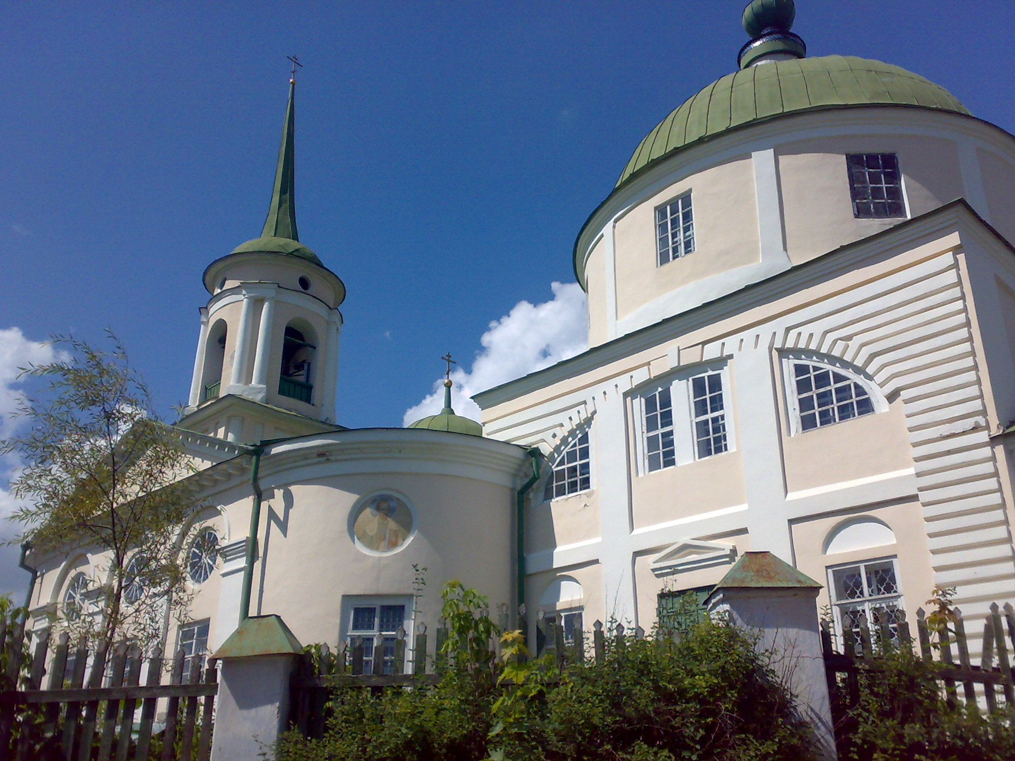 took this photo using my mobile, in July 2008, in Kozelsk.